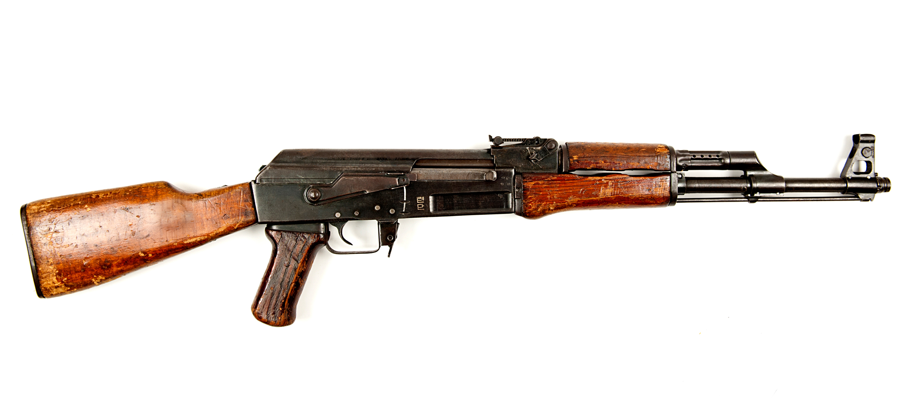 Type 58 (North Korea): Make: (North Korea) Model: Type 58 Caliber: 7.62x39mm (Removed the ATF logo at the bottom of the image on the website, cropped)